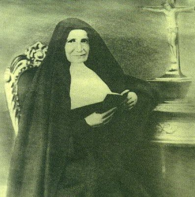 Last photograph of blessed Anna Maria Janer, founder of Sisters of Holy Family of Urgell